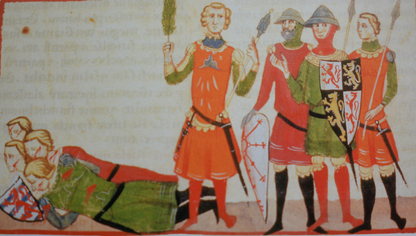 Battle of Worringen